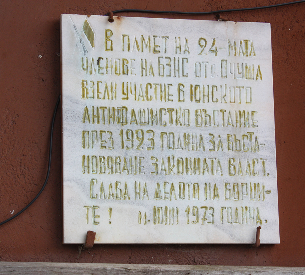 Memorial plate of June Uprising, organized by the Bulgarian Agrarian Union